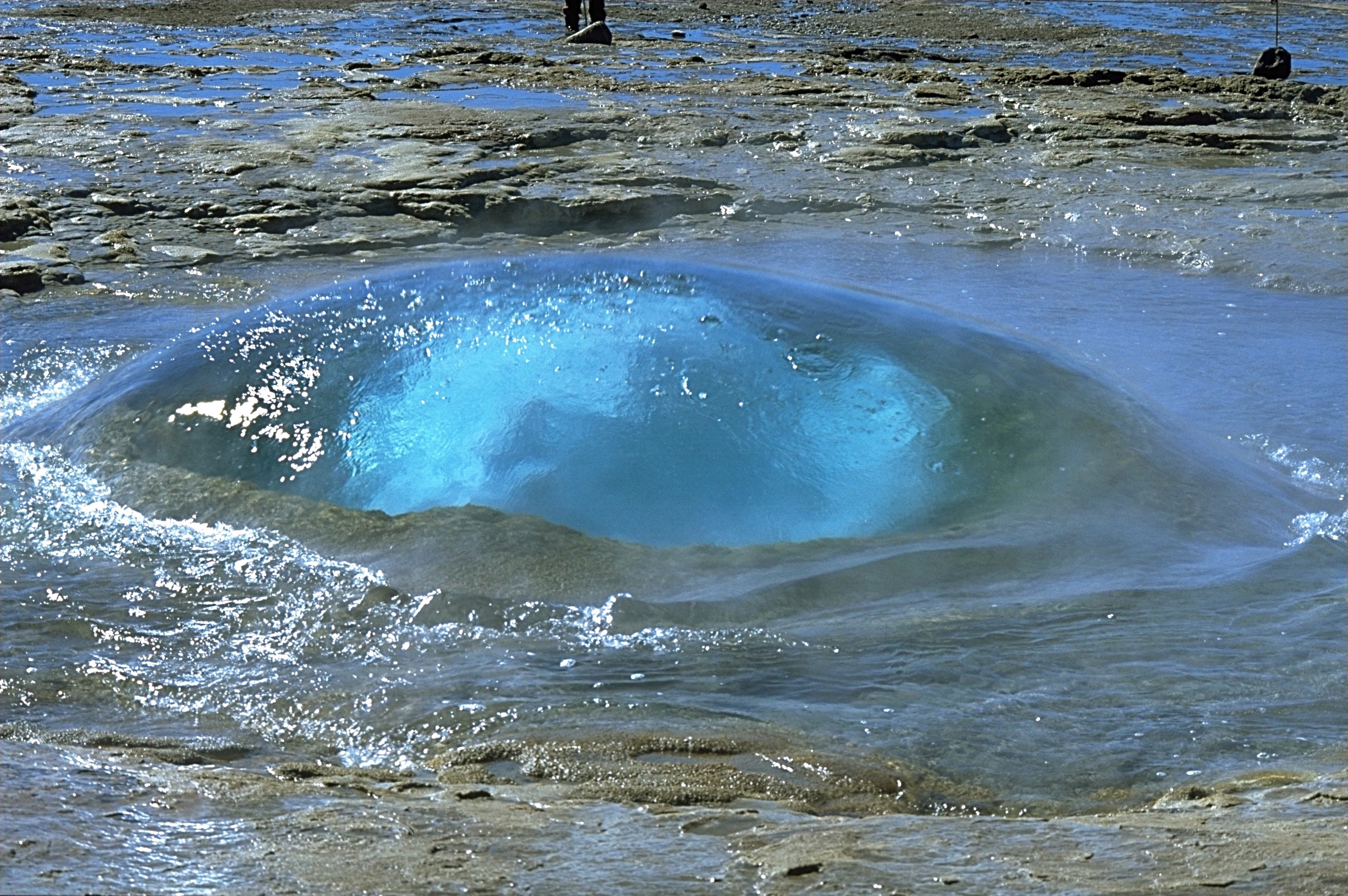 Eruption of geyser Strokkur (state 3).